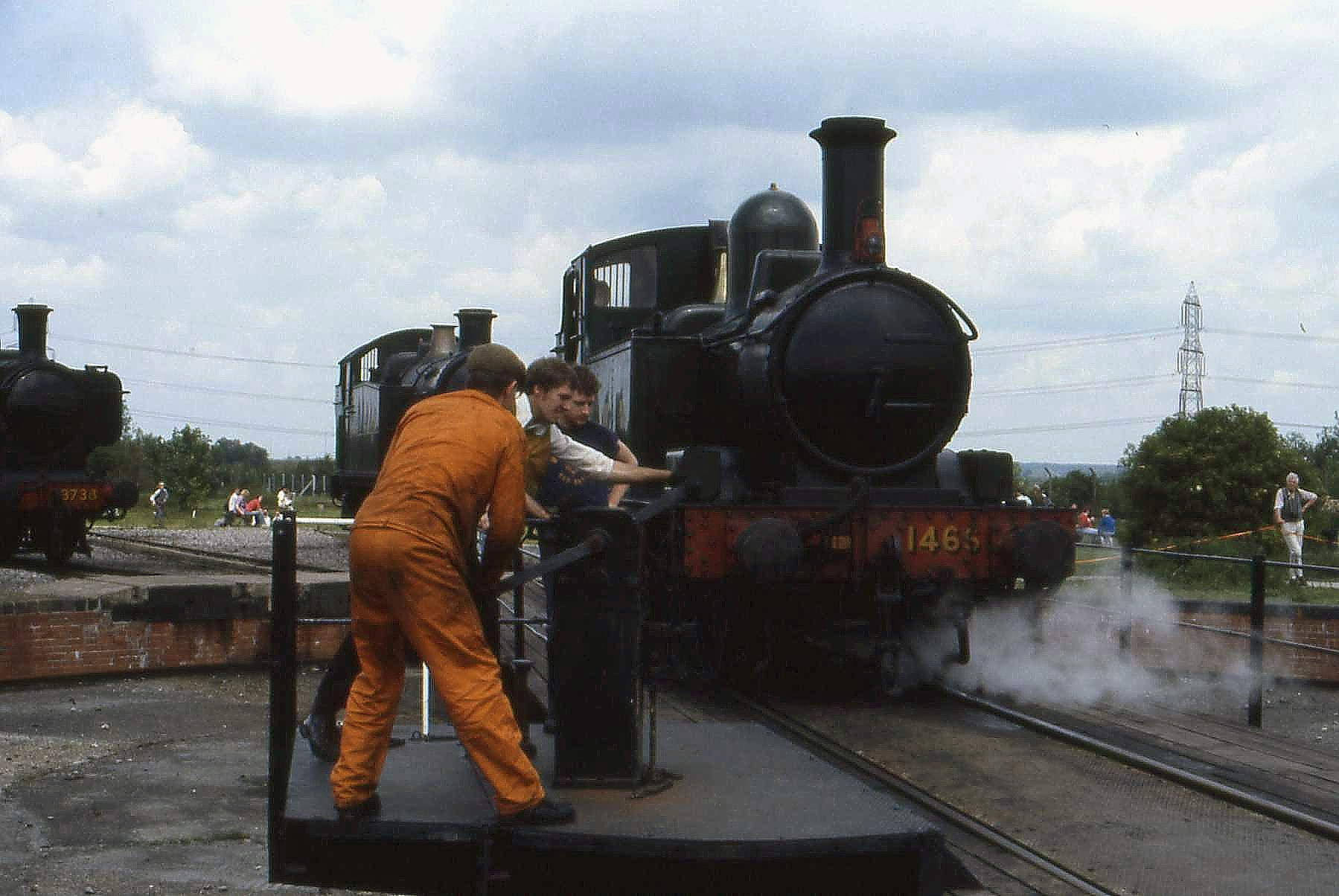 1466 being turned at Didcot